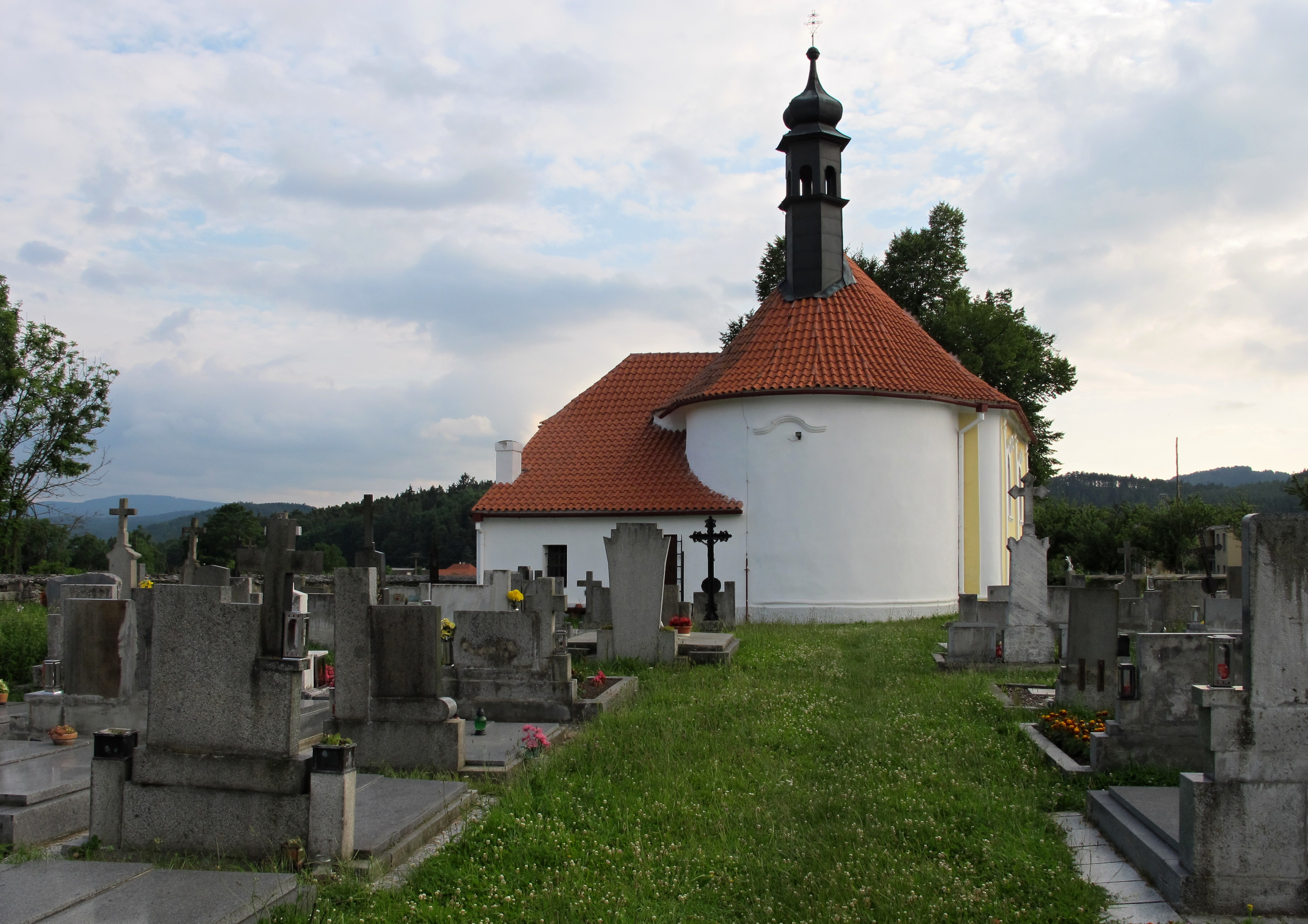 Little church and cemetery near Rabí Castle, icluded in nature park Buděticko, Klatovy District in Czech Republic